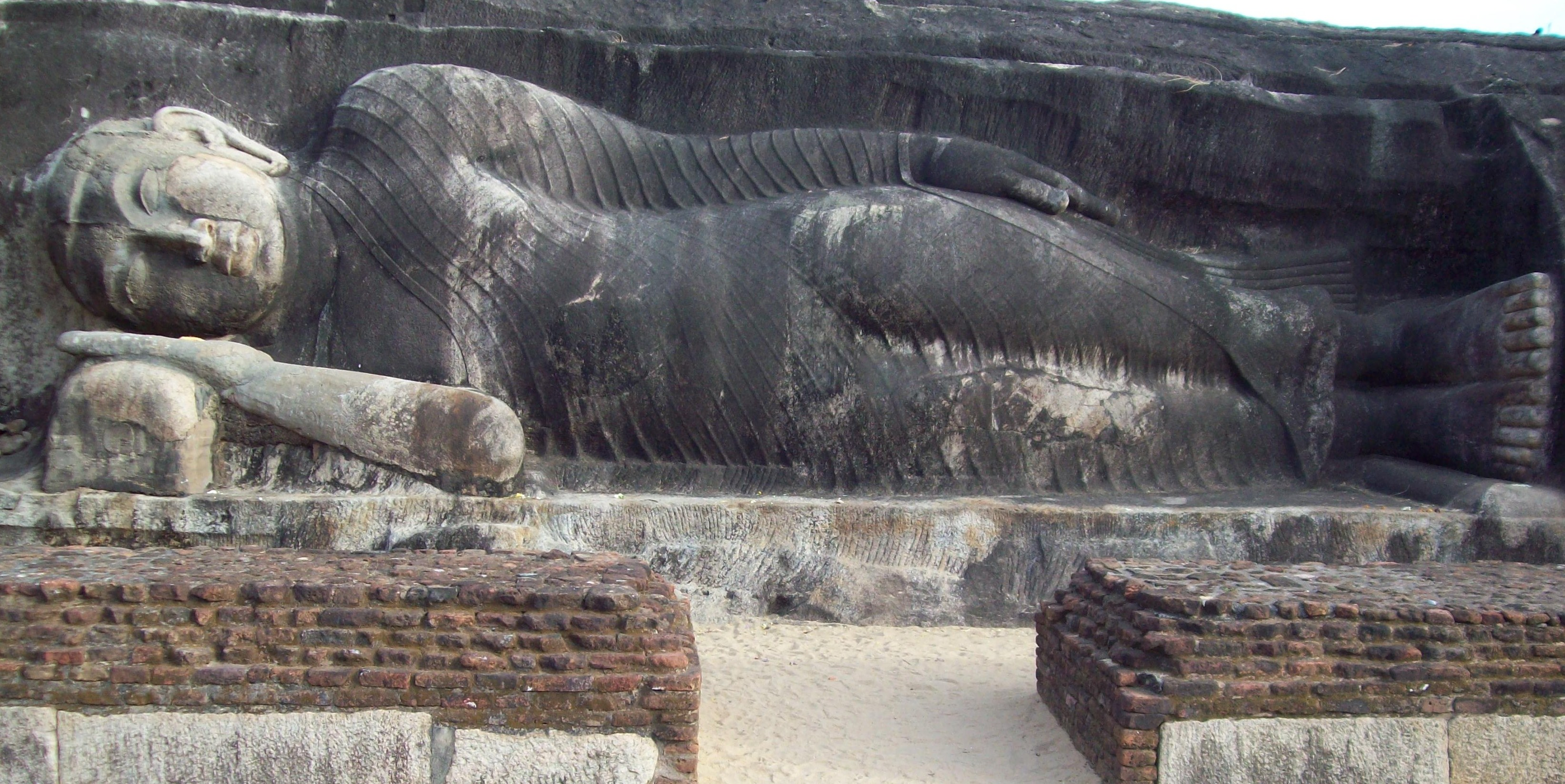 Thanthimale Recline Buddha Statue